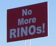 St. Paul, Minnesota April 15, 2010 There was another Tea Party protest at the Minnesota capitol on April 15, tax day. Protesters call for smaller government and the repeal of the health care law enacted in March, 2010.